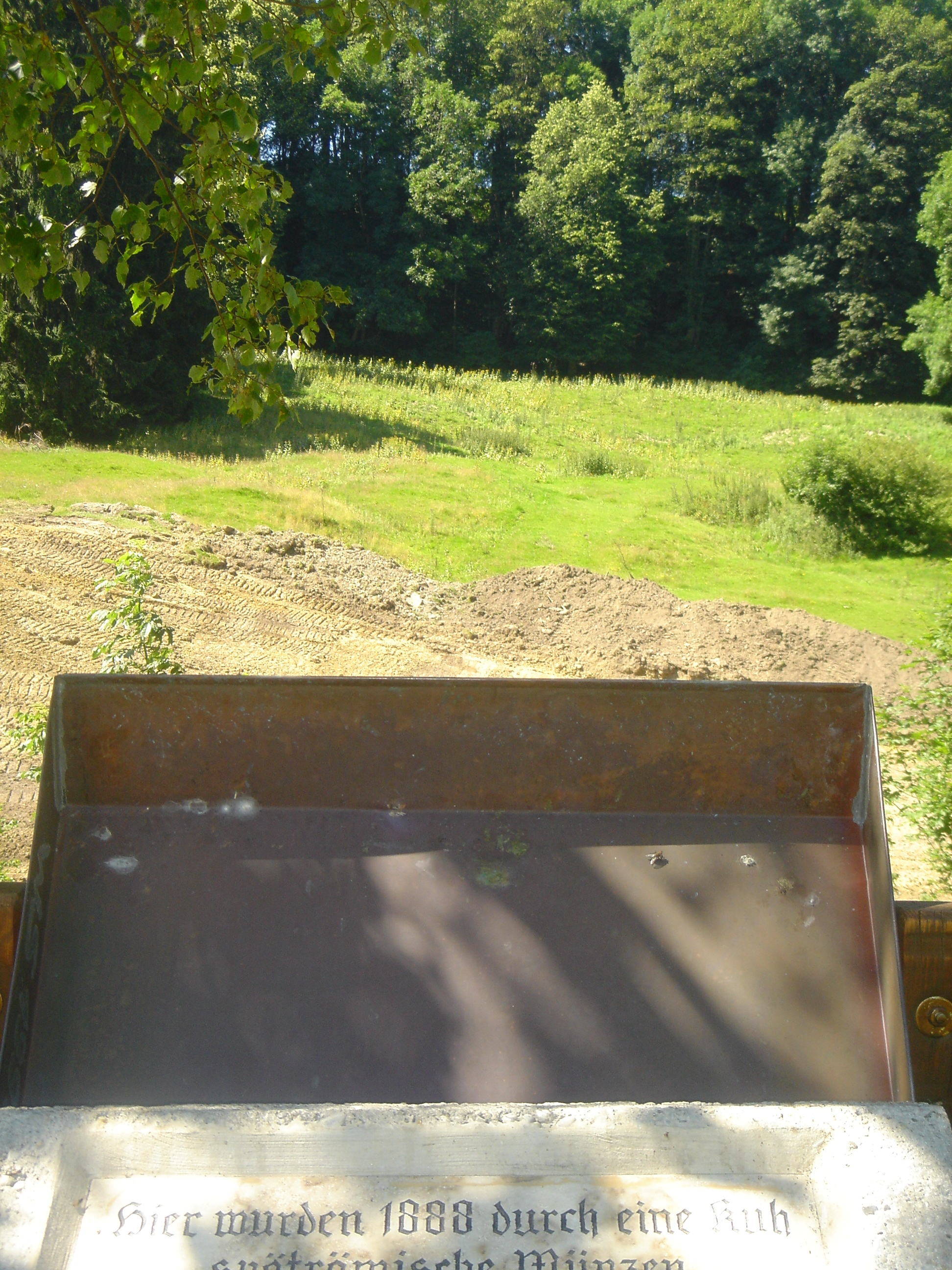 stone tablet (partial) and place of discovery (in the background; approx. in the meadow beneath the trees) at the habitat of the Wiggensbach Treasure